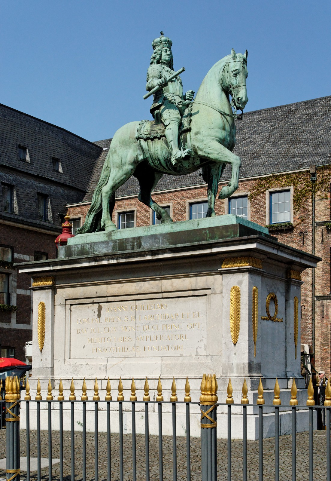 Jan Wellem equestrian monument on the Marktplatz in Düsseldorf-Altstadt, Germany